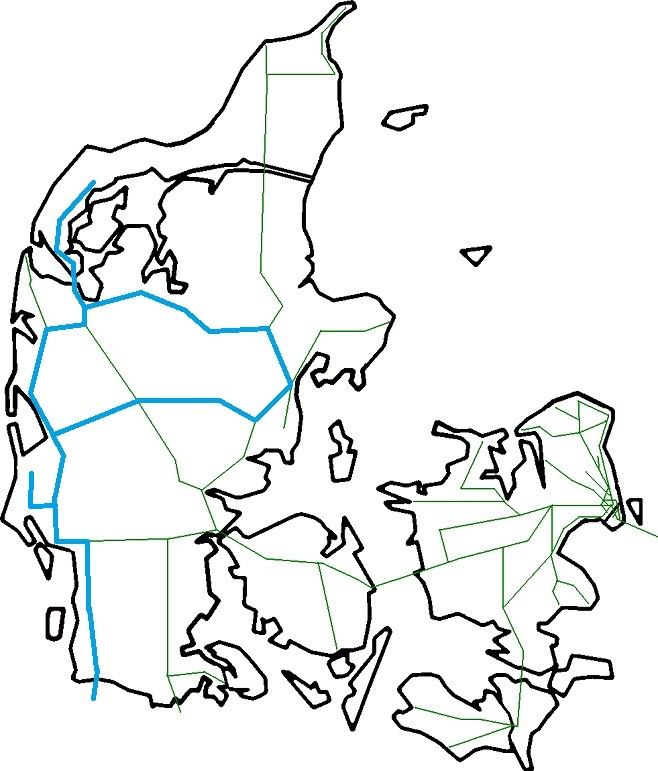 Map of railways in Denmark with lines served by Arriva in turkis.